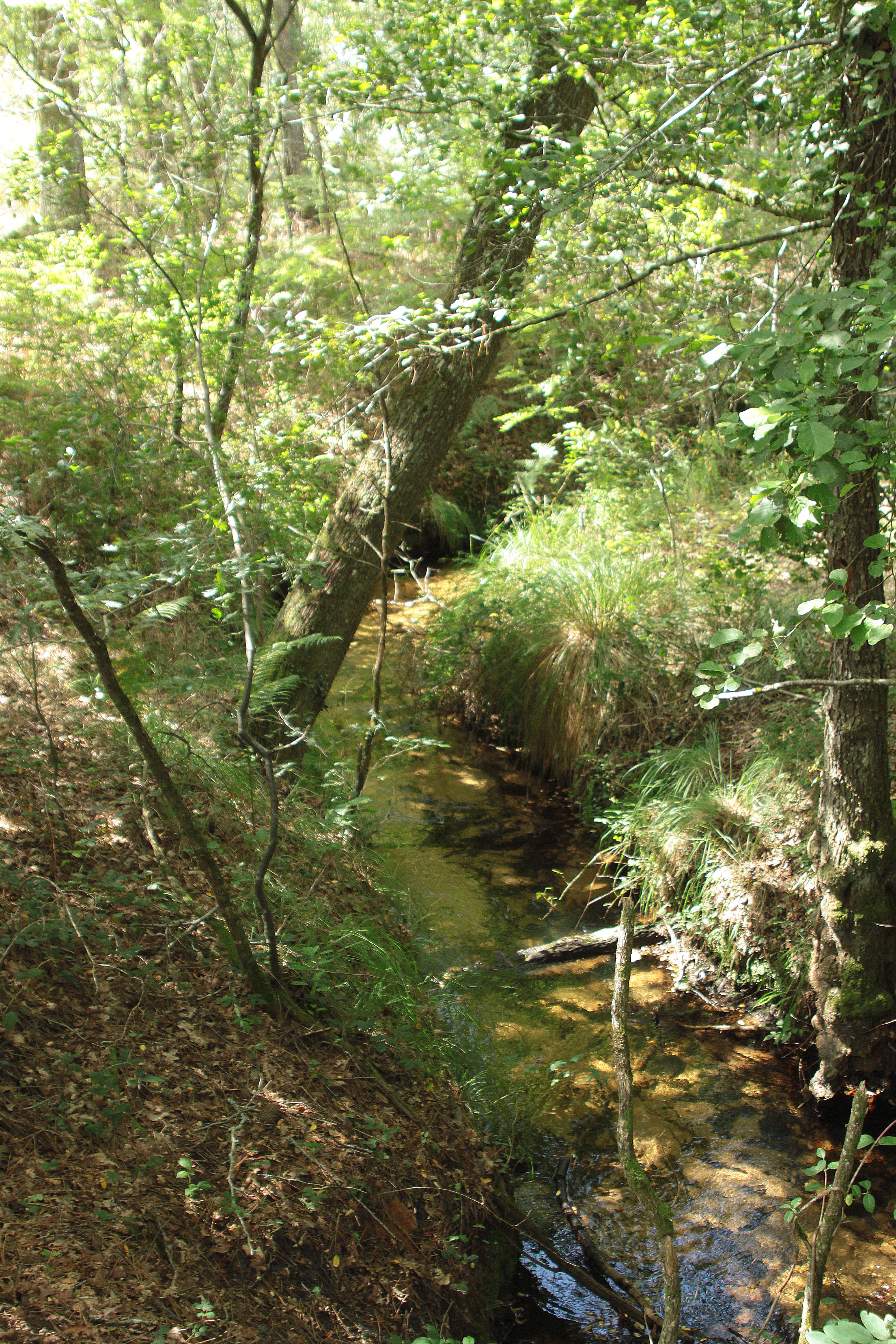 The Gouaneyre river near Lestrat-mill